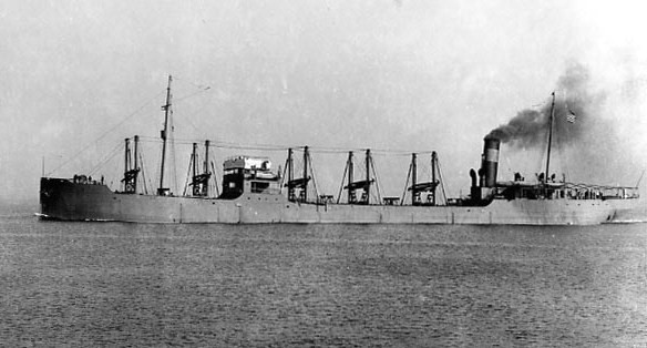 USS Vulcan (Collier # 5) underway off Boston, MA., 26 November 1911. US Navy photo # NH 66849, from the collections of the US Naval Historical Center.